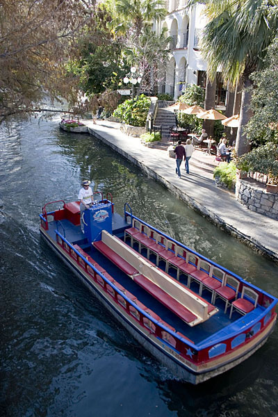 kelvin kay